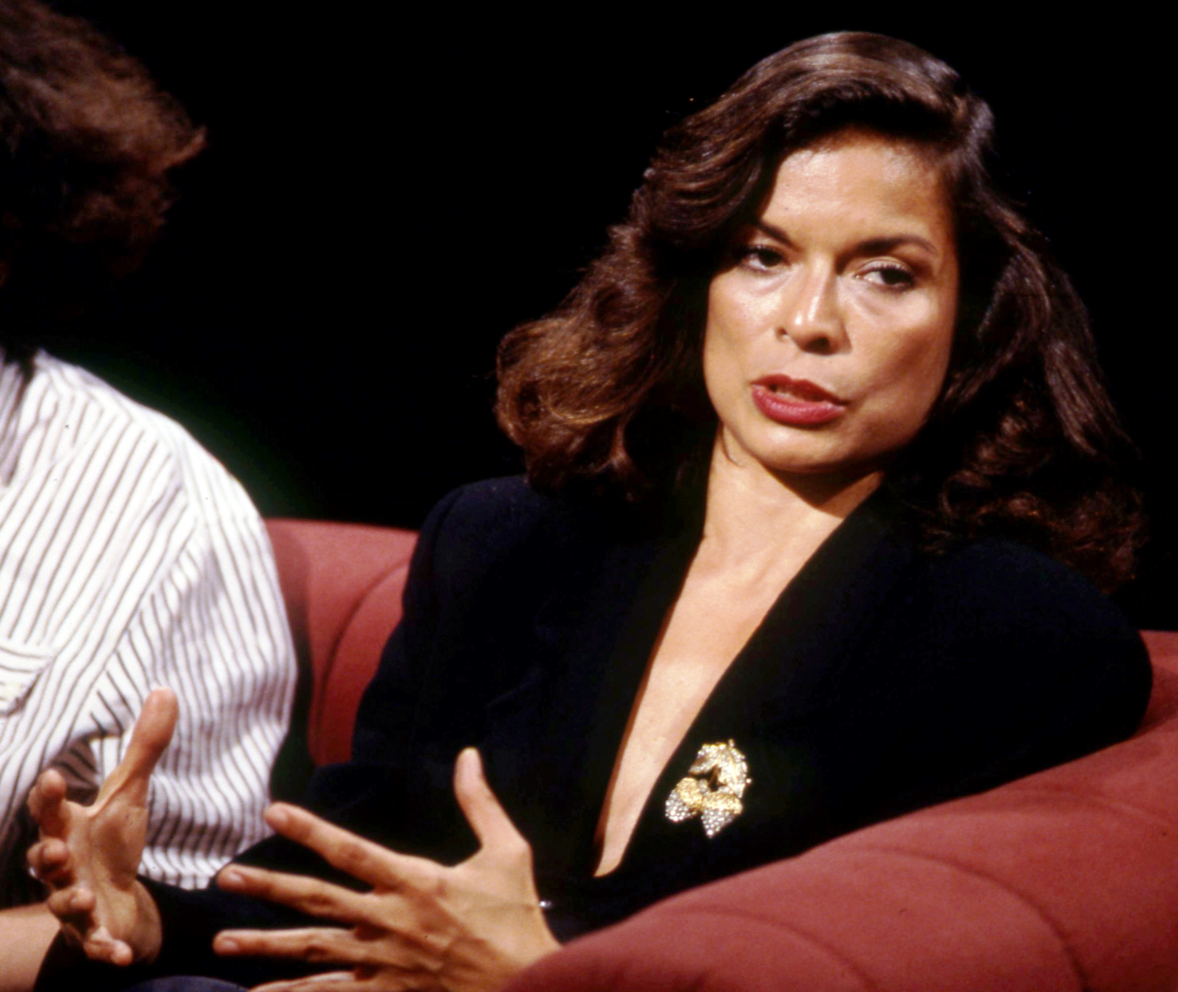 Bianca Jagger appearing on After Dark - episode 'Nicaragua' - transmitted on 6 August 1988. Other guests included John Silber, Alfred Sherman, Roberto Ferrey, Susan Morgan, Amalia Chomarro, Allan Francovich and John Bevan. More here.